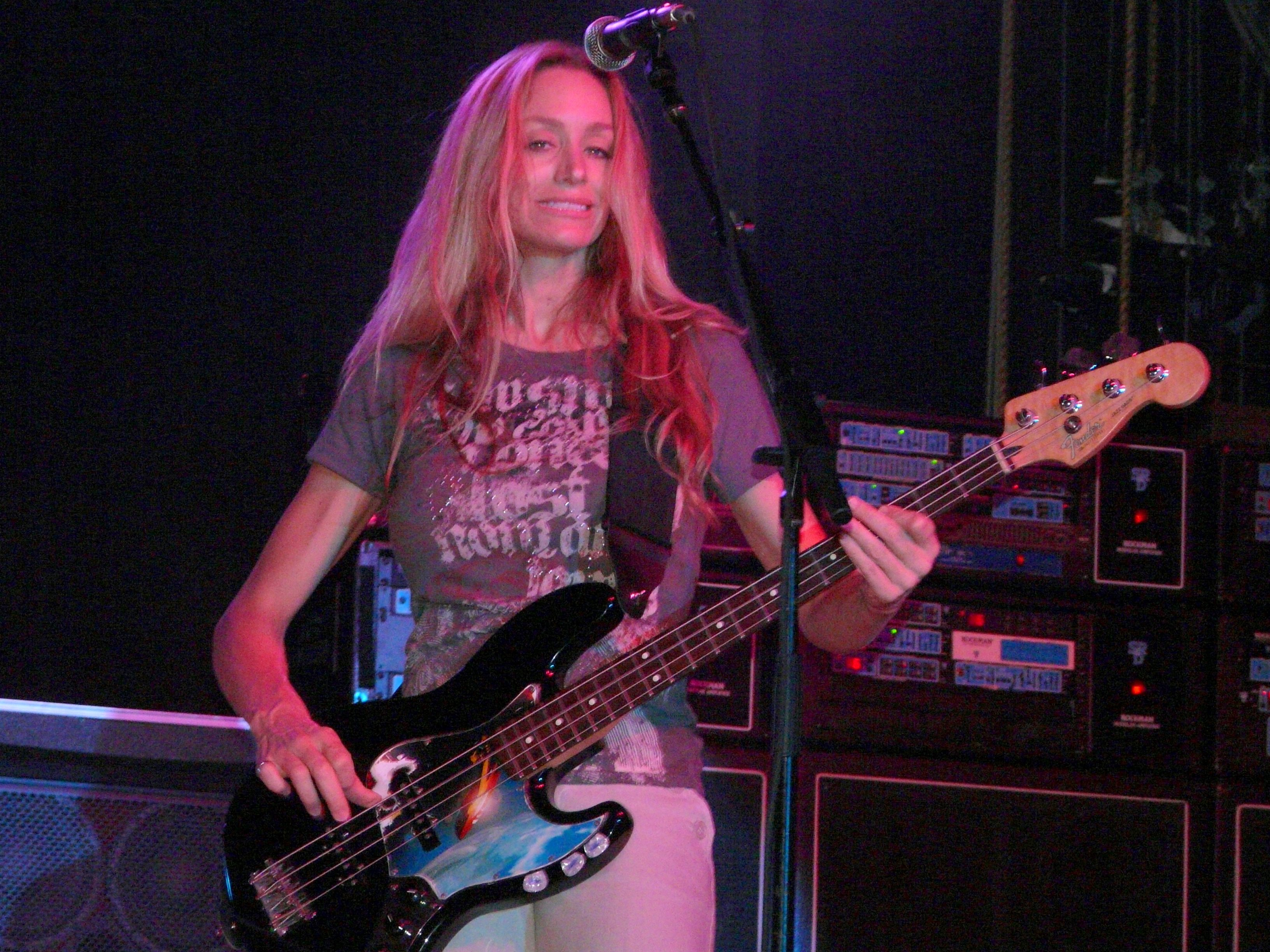 KIMBERLEY DAHME of BOSTON Photo by Matt Becker Taken on June 13, 2008 at the Grand Casino in Hinckley, MN